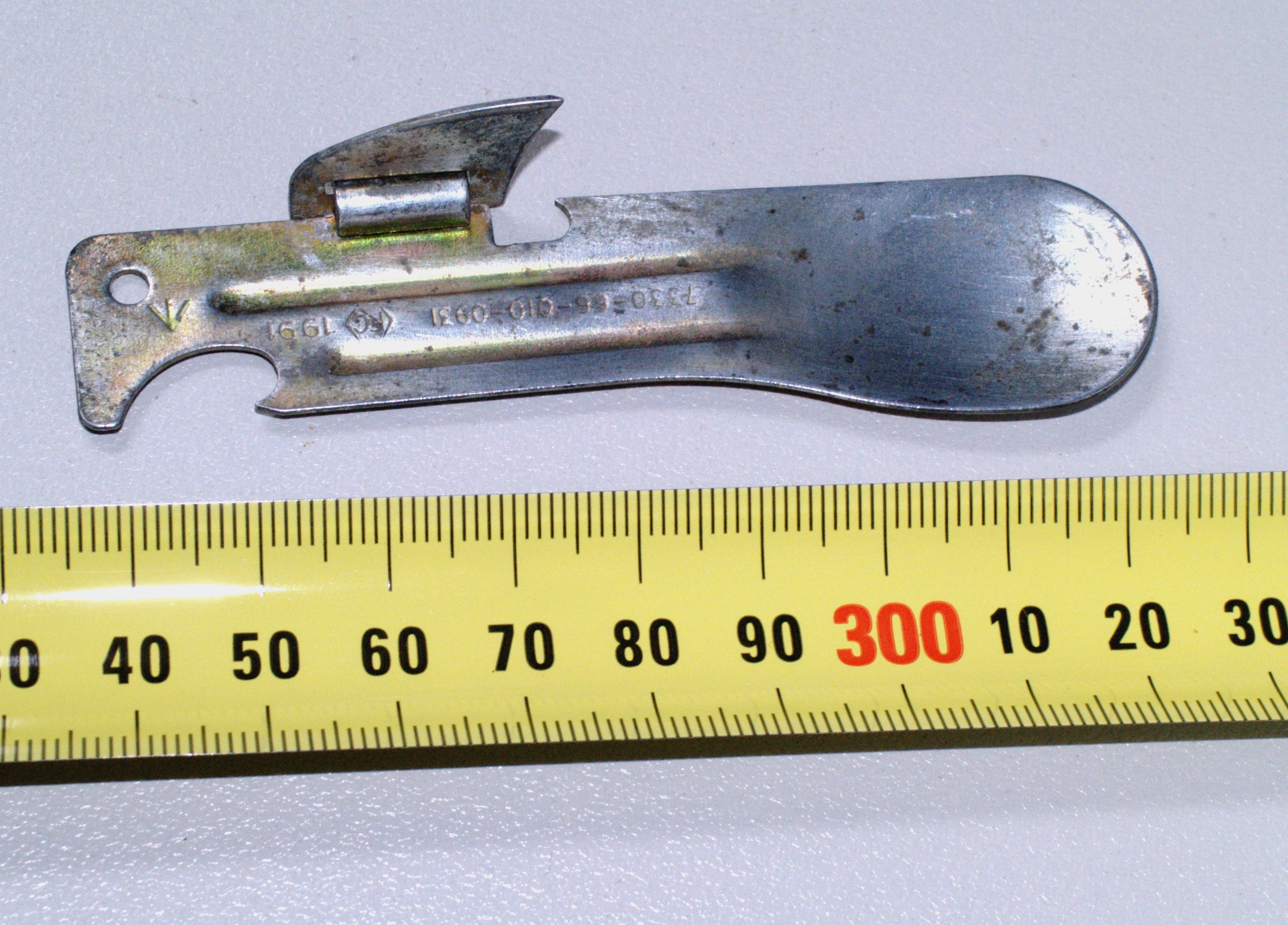 A can opener that incorporates a small spoon at one end and a can opener at the other is currently employed by the Australian Army and New Zealand Army in its ration kits.